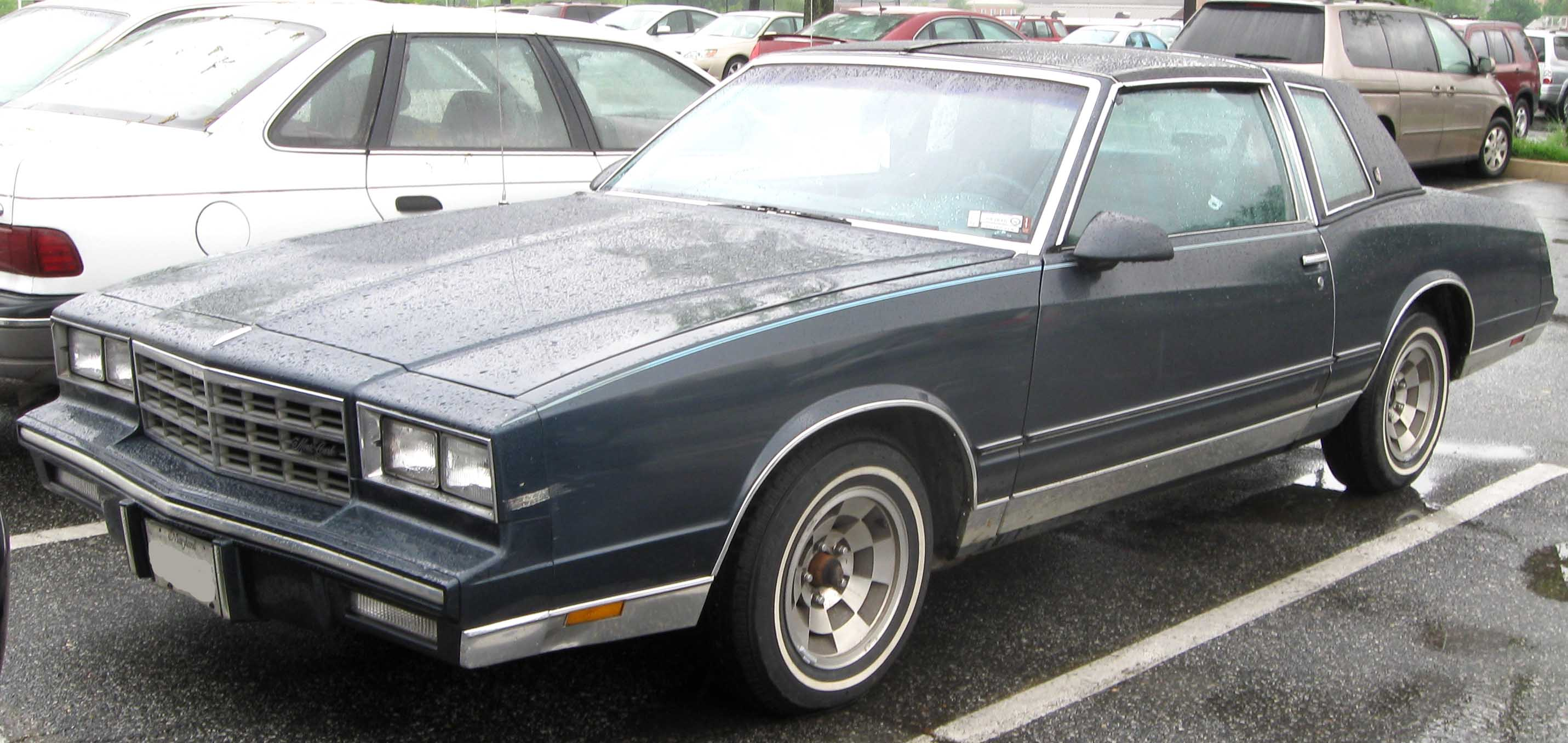 1981-1982 Chevrolet Monte Carlo photographed in College Park, Maryland, USA.